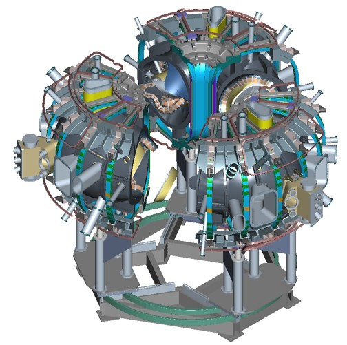 CAD design drawing of the National Compact Stellarator Experiment (NCSX). The three field-periods of the machine are taken apart in this drawing.